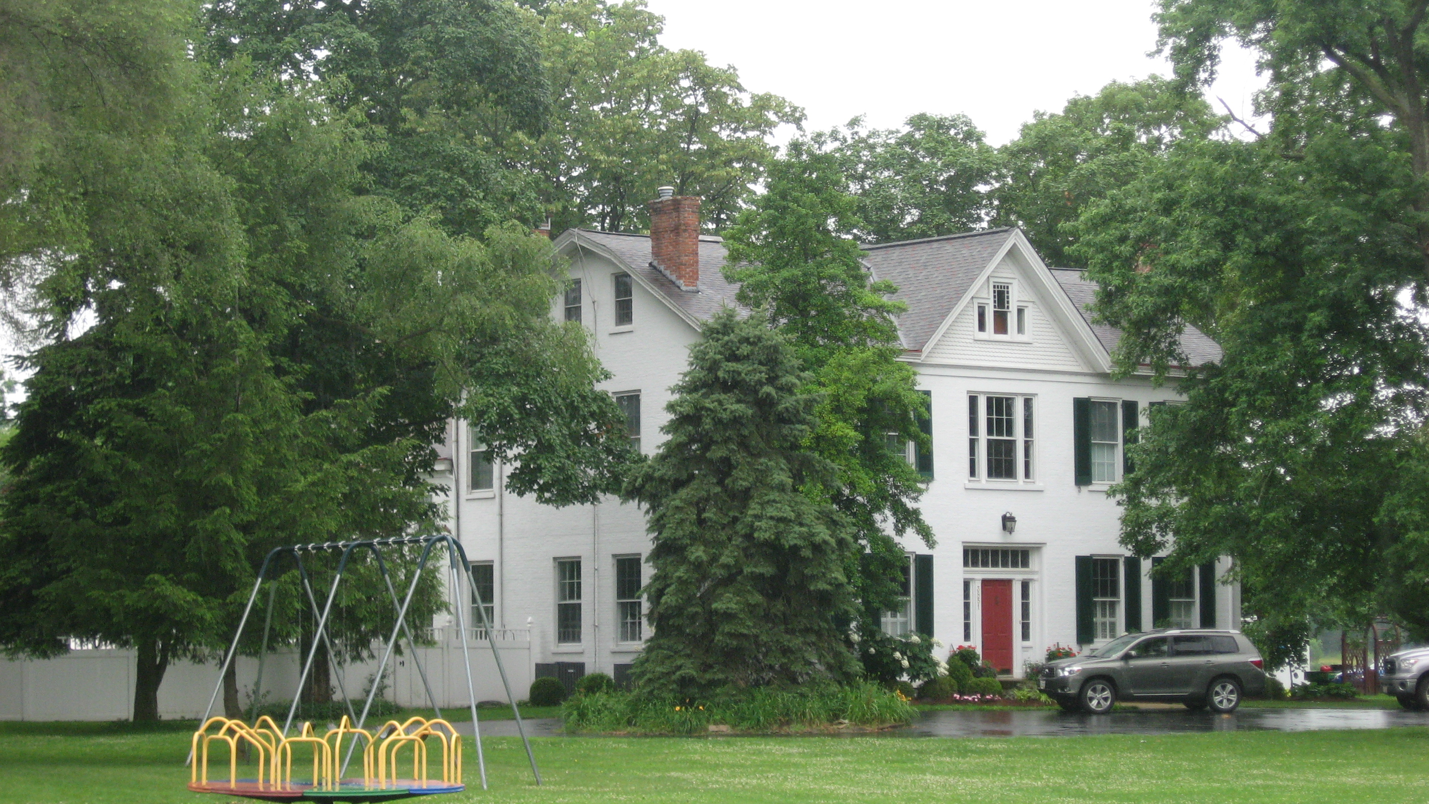 Front of the William Edwards Farmhouse, located at 3851 Edwards Road in Newtown, Ohio, United States. Built in 1840, it is listed on the National Register of Historic Places.